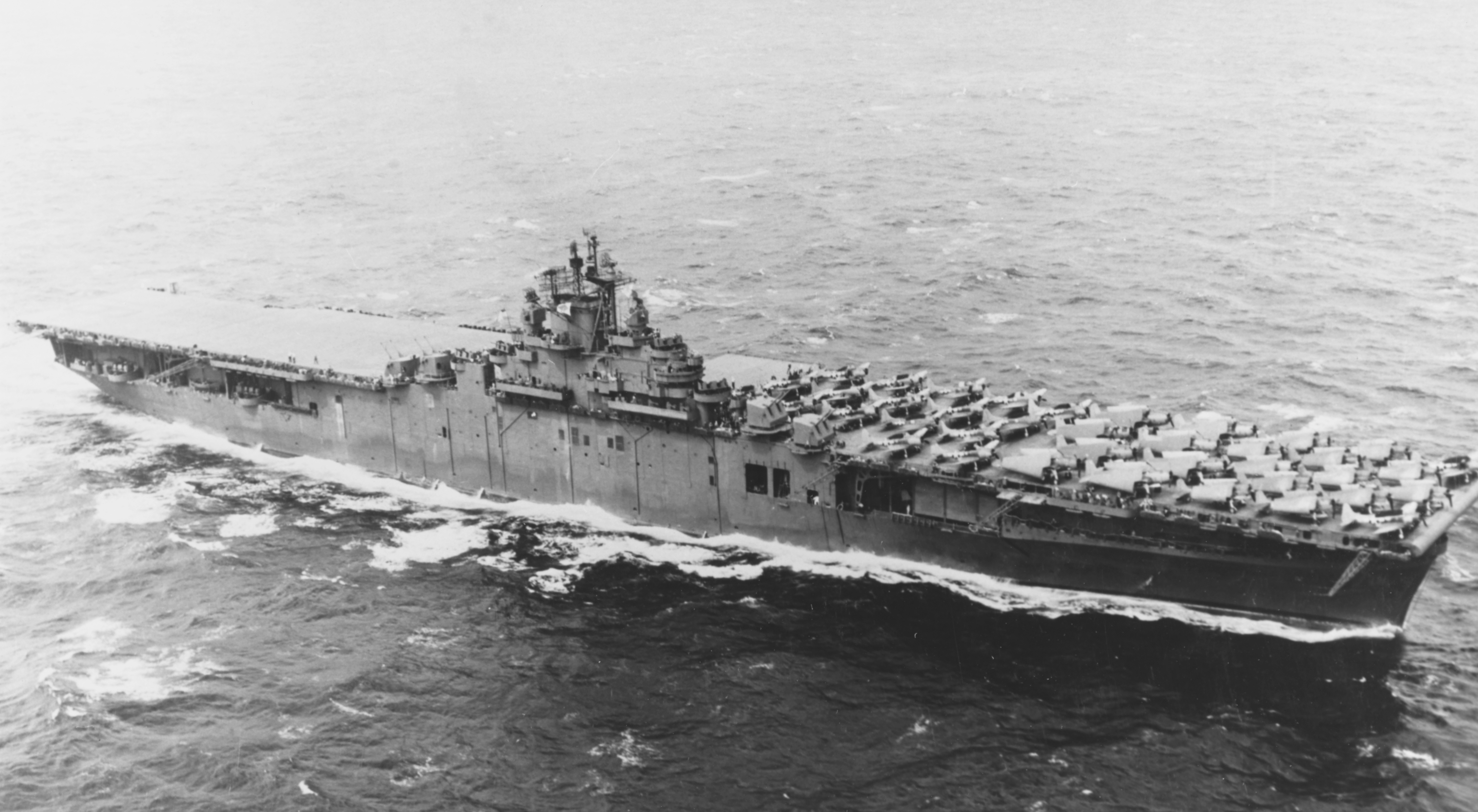 The U.S. Navy aircraft carrier USS Lexington (CV-16) underway on 12 November 1943.